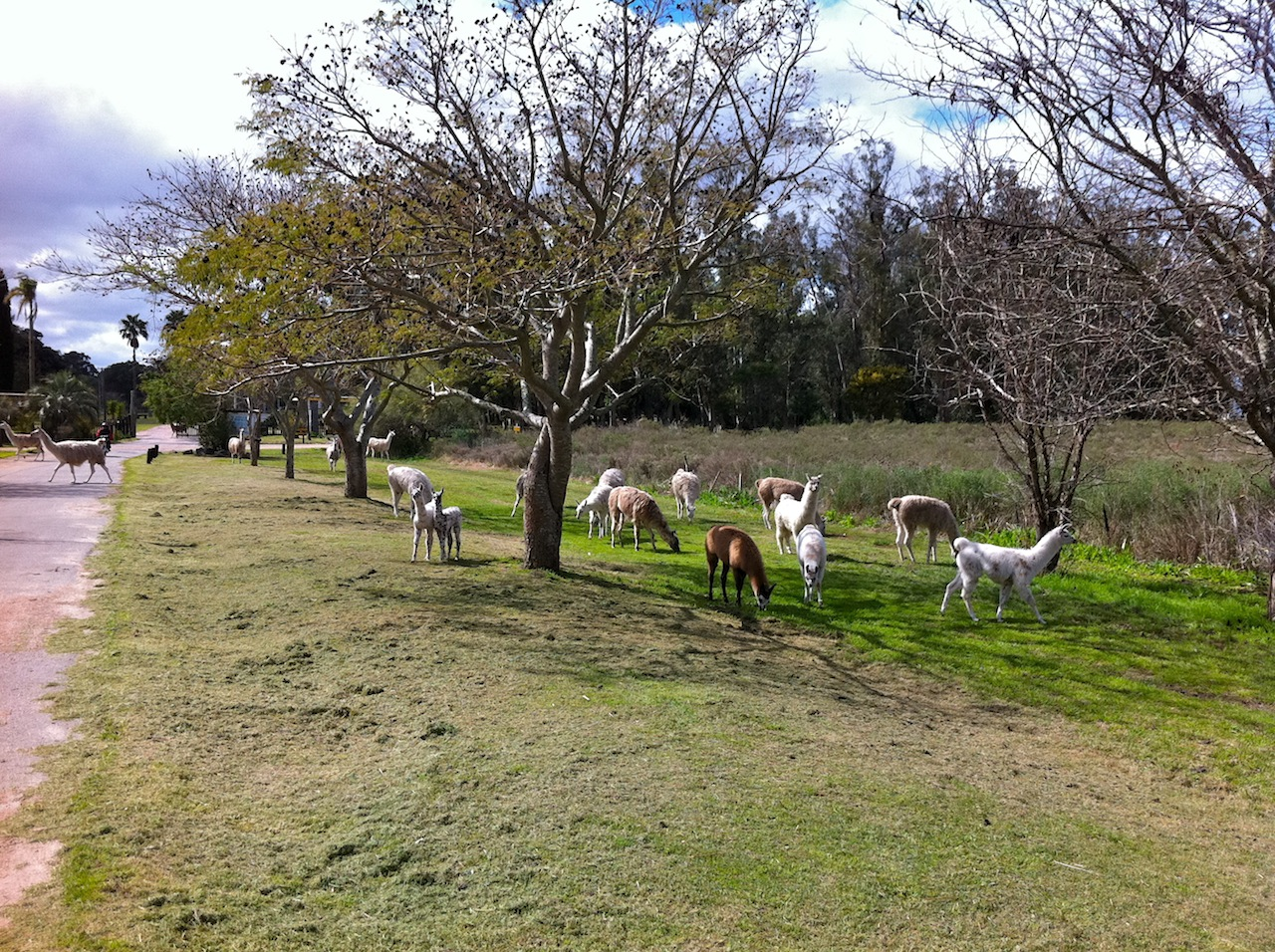 Entrance of Parque Lecocq, Montevideo, Uruguay, showing several mammals roaming freely just outside the main gates.